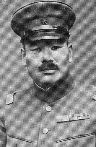 Takuma Nishimura (Footballer)